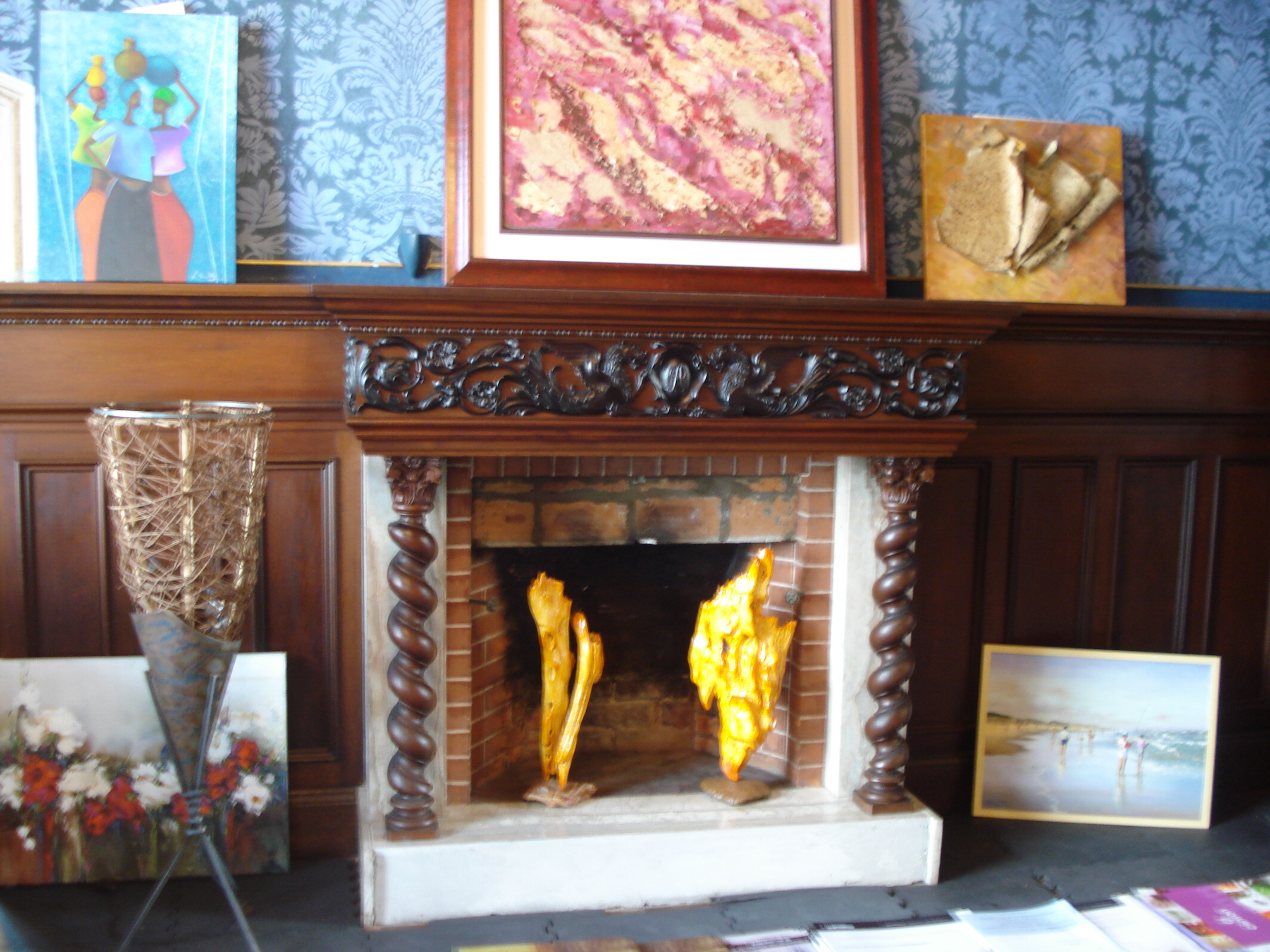 The fireplace in "Casa Boni".